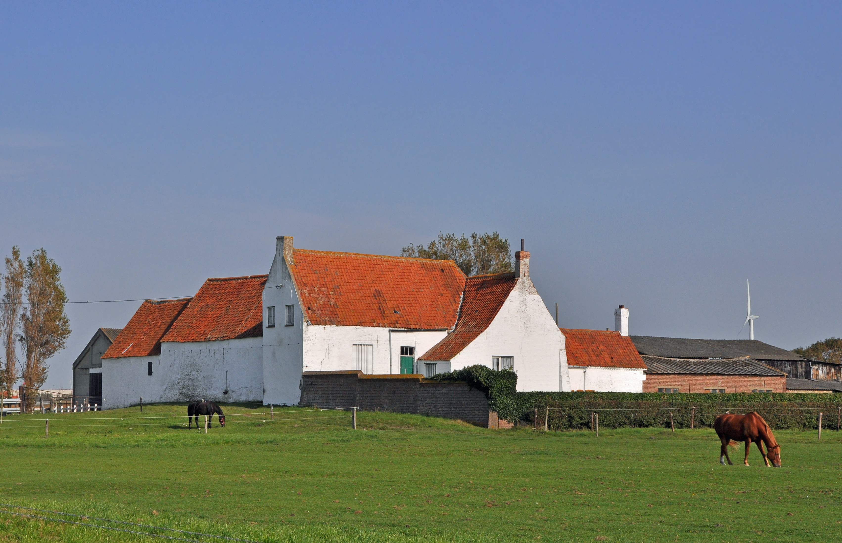 Blankenberge (Belgium): Raaswalle farm